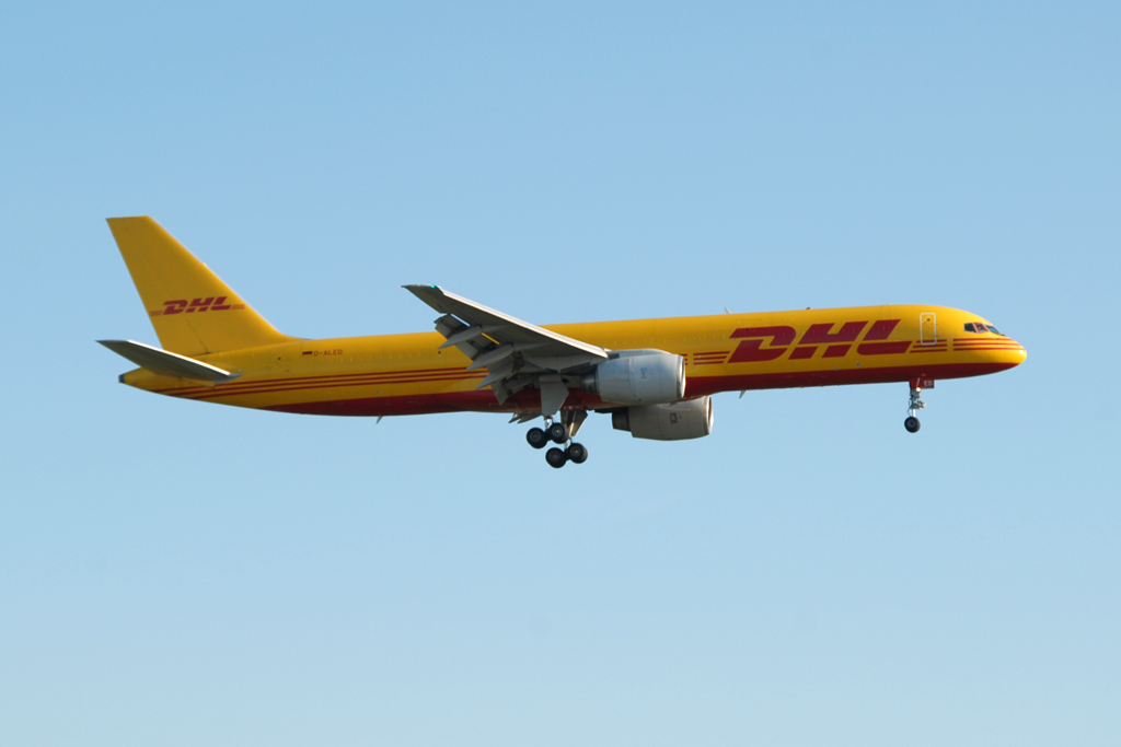 D-ALED Boeing 757-236 msn 22179/24 operated by European Air Transport for DHL and seen on short finals for 27L at London Heathrow (LHR/EGLL).